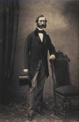 Friedrich, Duke of Schleswig-Holstein-Sonderburg-Glücksburg (1814-1885)